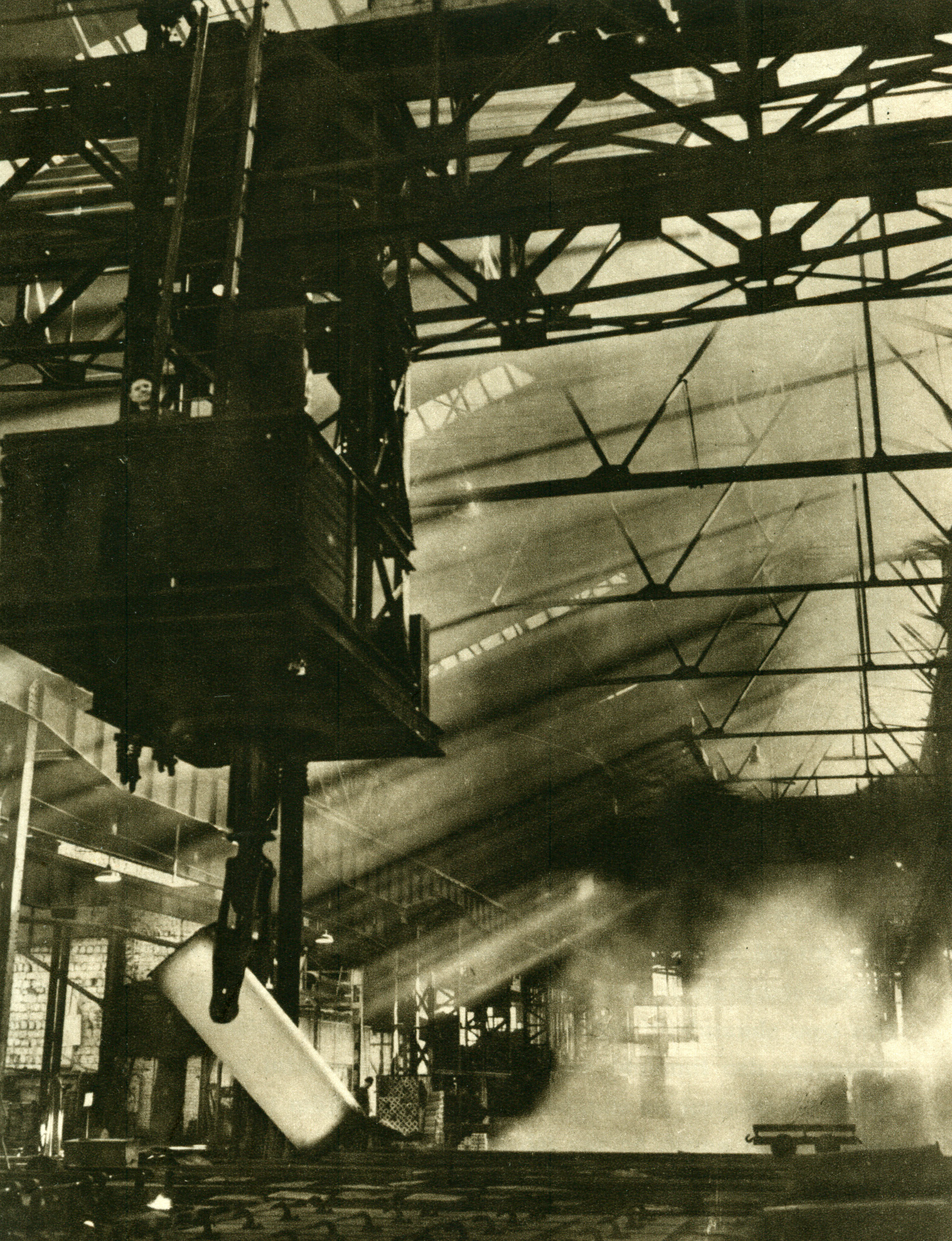 Transportation of a steel bloom in Domnarvet iron works in Sweden.